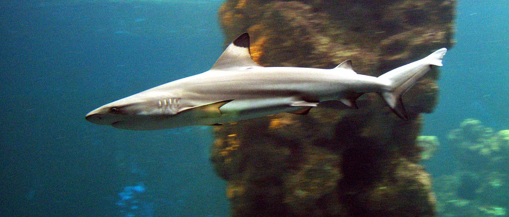 Blacktip Reef Shark (Carcharhinus melanopterus) at Aquazoo-Löbbecke-Museum Düsseldorf